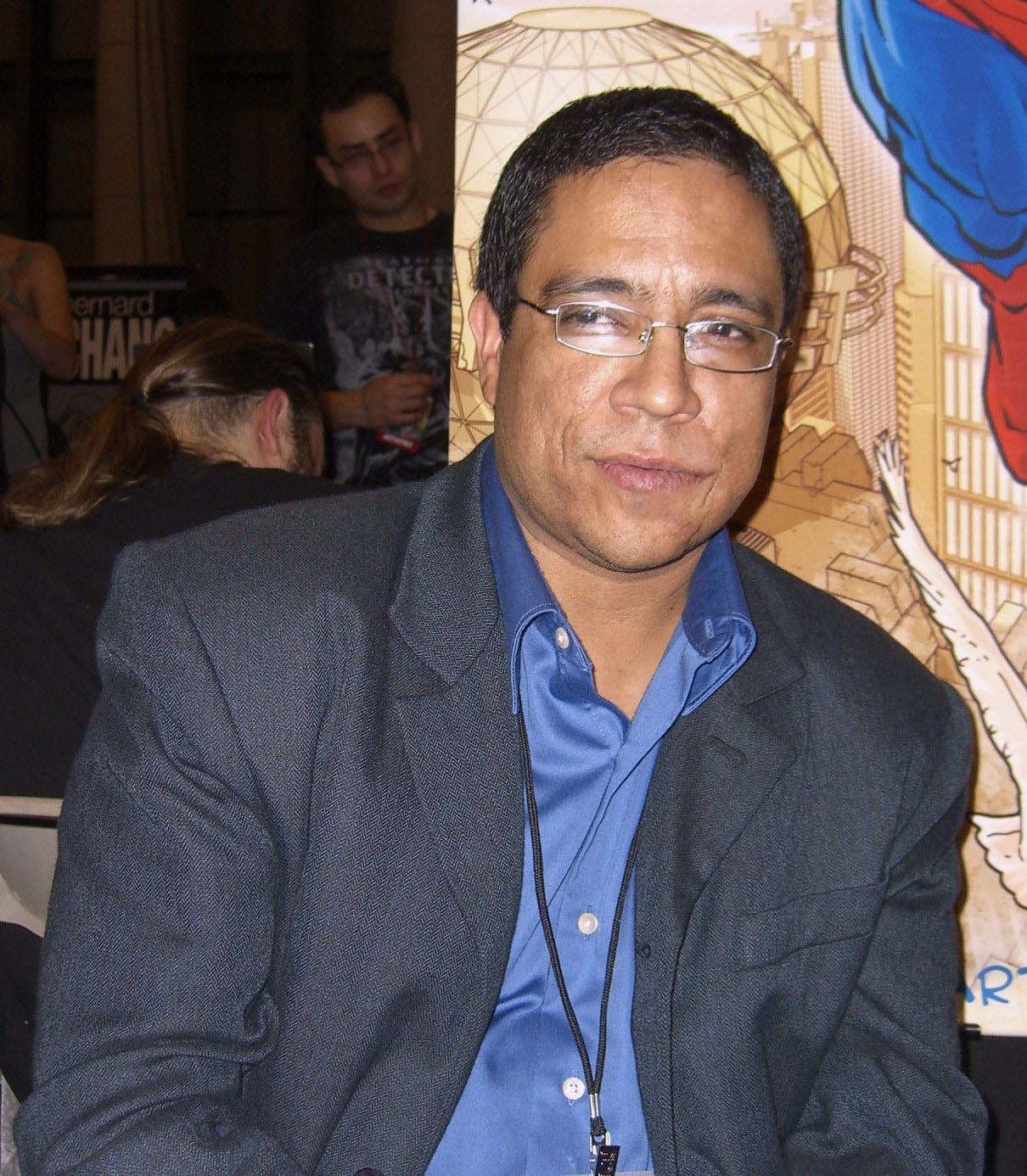 Comic book creator Justiniano, at the New York Comic Convention in Manhattan, October 9, 2010. Photo by Luigi Novi. This photo may be used, modified and published for any purpose, only if a easily visible credit to the photographer is placed near the photo in each instance in which it is used. (See licensing information below.) Publication of this photo without this proper attribution constitute copyright infringement. For more information on my photos, you can contact me here.